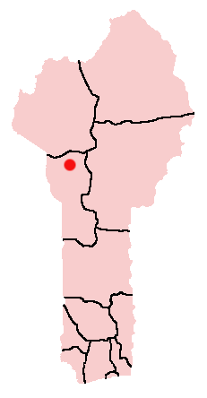 Djougou, Benin Location Map; created with the GIMP. Made by User:Acntx.